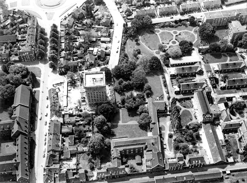 Aerial view of the site of the Calvariënberg Hospital in Maastricht, Netherlands. The hospital had moved out to new premises in 1950 and the site was used as a nursing home and a care home for psychiatric patients.